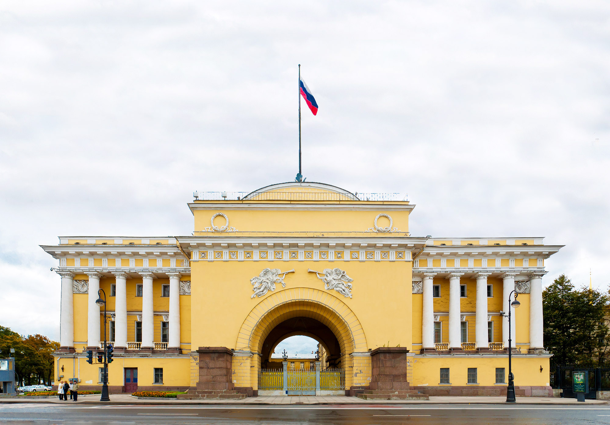 the main Admiralty